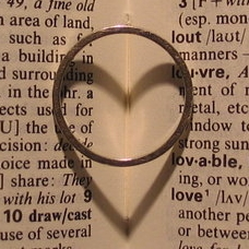 The photographer's wedding ring and its heart-shaped shadow in a dictionary.